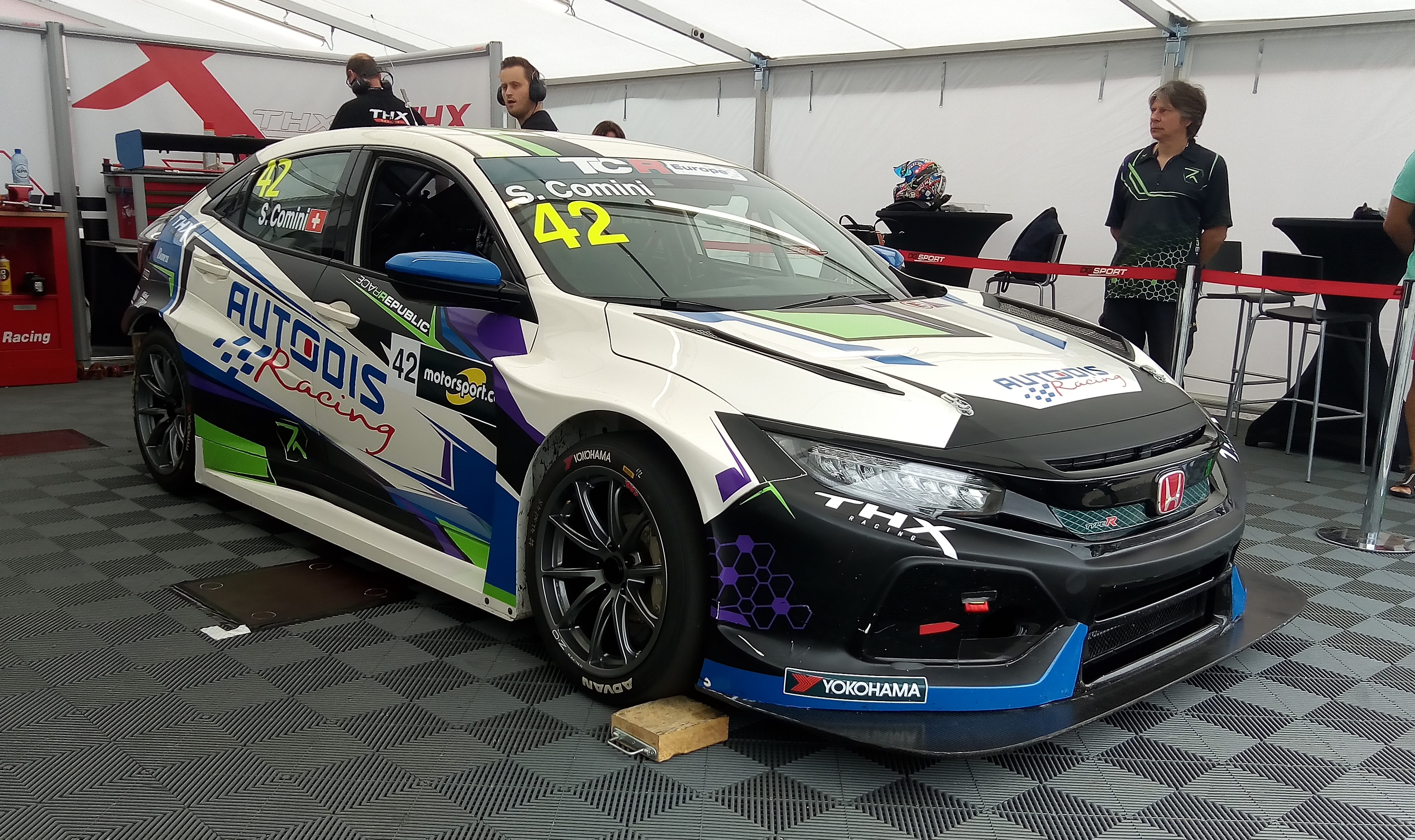 Stefano Comini (Autodis Racing by THX) at the 2018 TCR Europe Series round at Spa-Francorchamps.